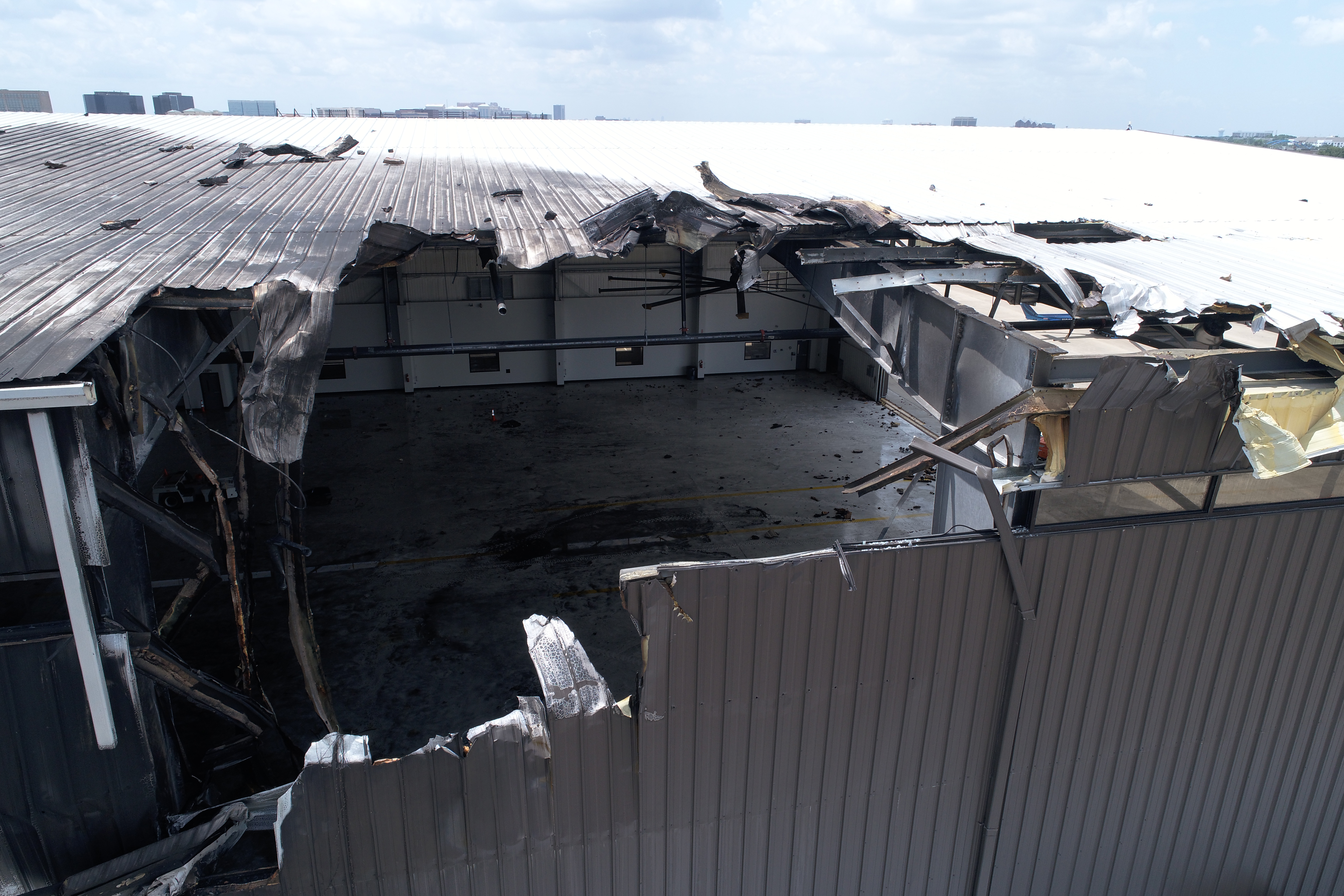 ADDISON, Texas (June 30, 2019) – Damage to a hangar at Addison Airport is captured in this photo taken by an NTSB drone July 1, 2019. The hangar was damaged when a Beech BE-350 Super King Air crashed into the hangar during takeoff from Addison Airport, Sunday, June 30, 2019. (NTSB Photo)